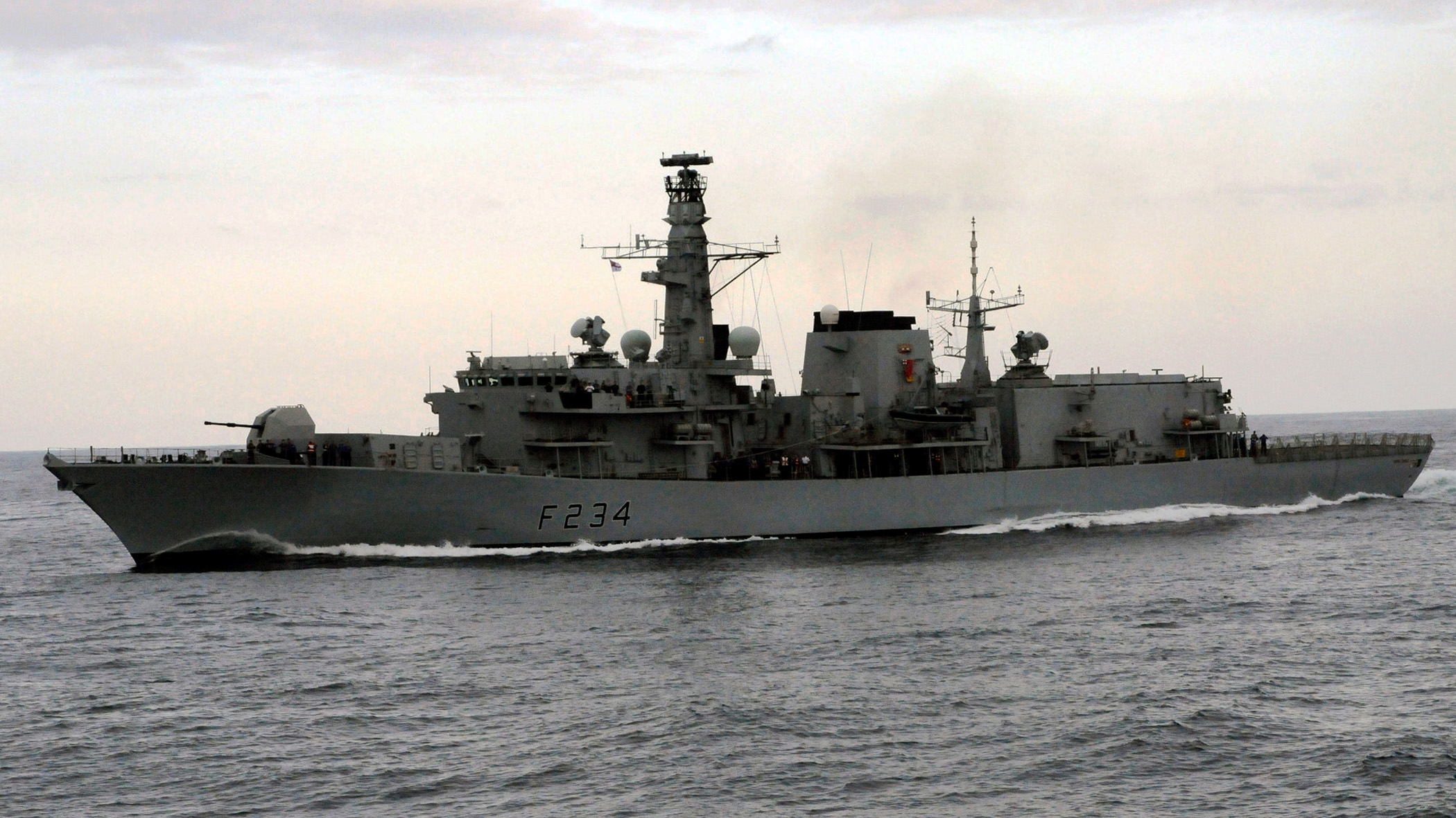 ATLANTIC OCEAN (April 21, 2010) The British Royal Navy frigate HMS Iron Duke (F234) maneuvers near the guided-missile destroyer USS Laboon (DDG 58) during exercise Joint Warrior 10-1. Joint Warrior is a semi-annual event that encompasses multi-warfare exercises designed to improve interoperability between allied navies, and prepares participating crews to conduct combined operations during deployment. (U.S. Navy photo by Mass Communication Specialist 2nd Class Nikki Smith/Released)